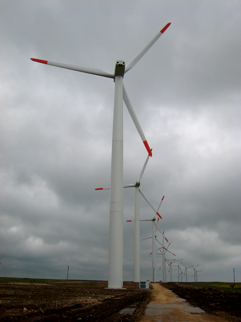 Wind turbines near Kaliakra cape, Bulgaria